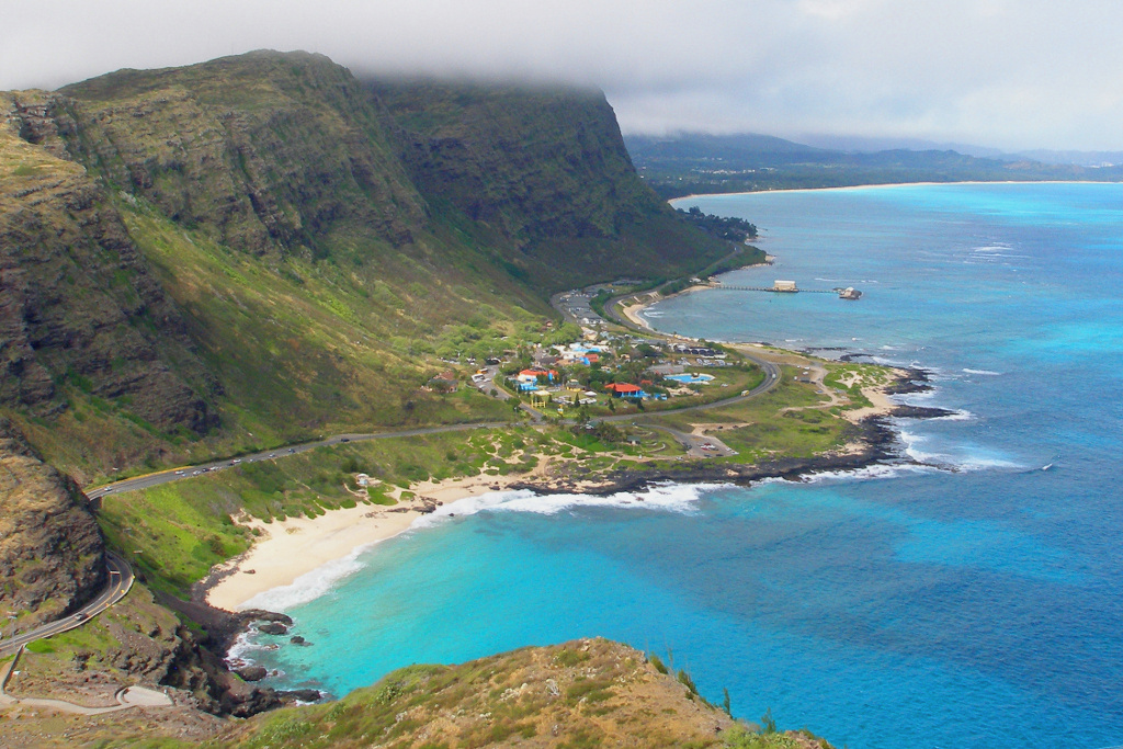 Oahu, Hawaii, USA, southeast coast with Makapu'u Beach from Makapu'u point